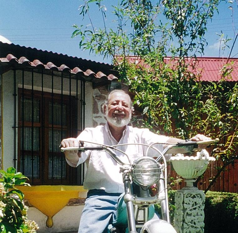 Carlos on his motorcycle